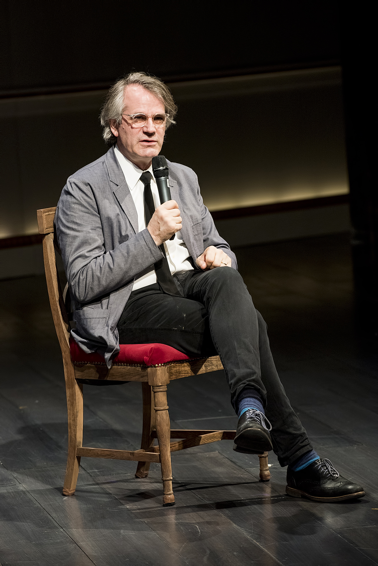 Bartlett Sher in conversation after a special performance of "OSLO" hosted by IPI. Photo credit: International Peace Institute.